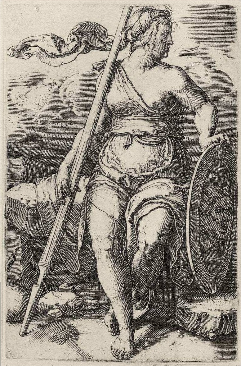 Pallas Athena